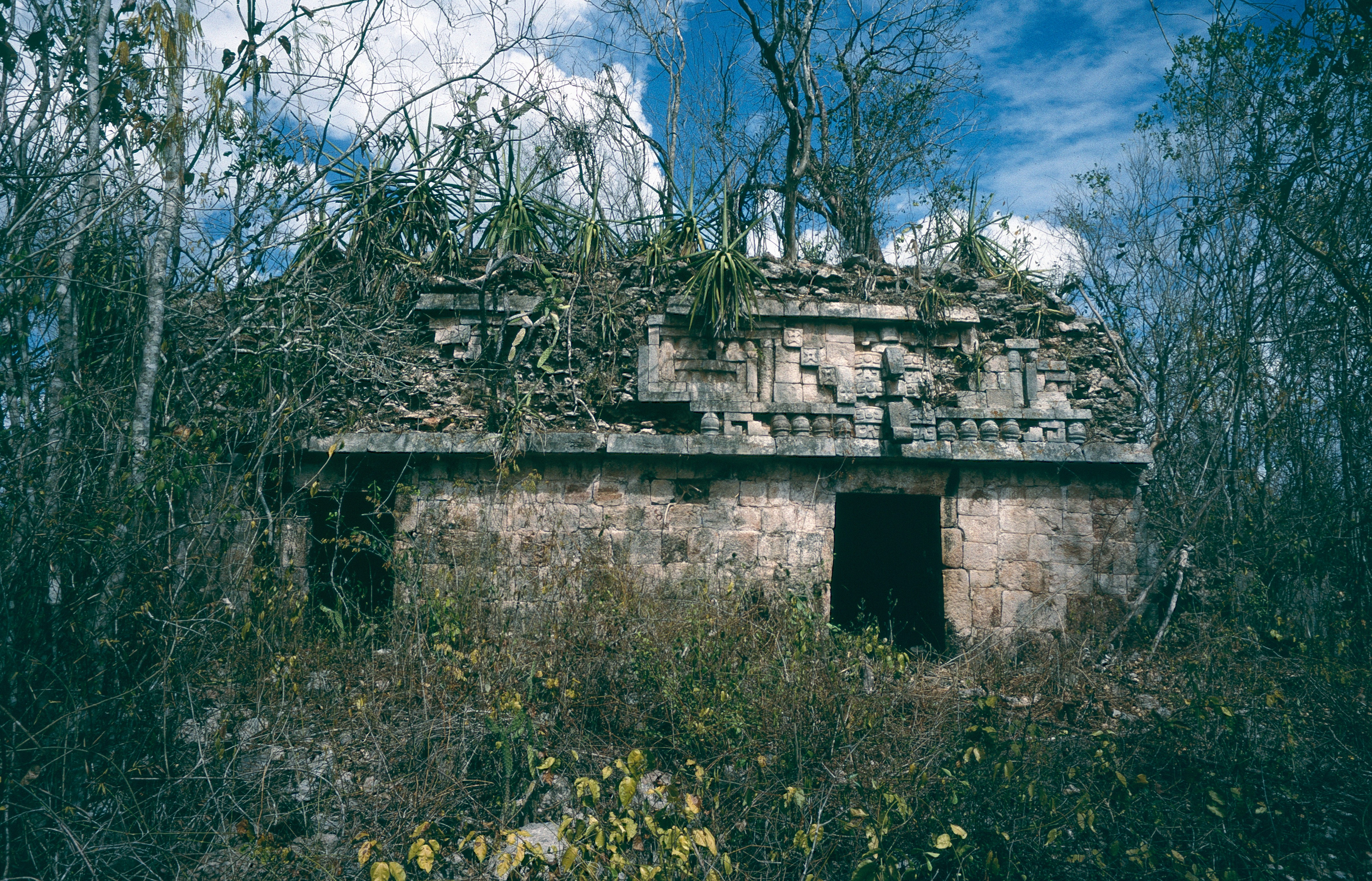 Xhaxché, Yucatan, Mexico (small site near Kabah)